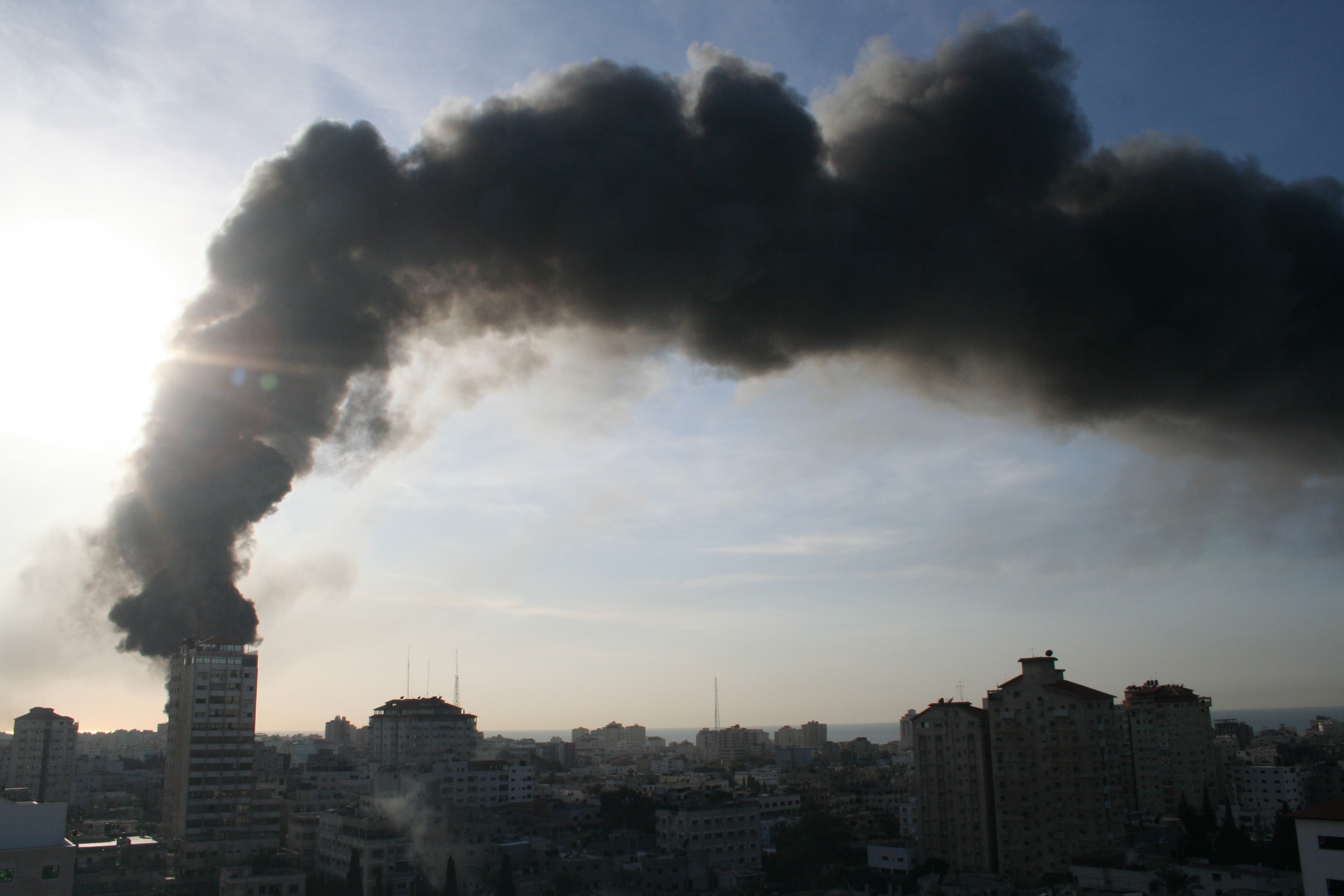 Black smoke billowing from the UN compound that was set a blaze by Israel. The smoke burned for hours. The UN relief agency compound that stores food and petrol was burned completely to the ground.